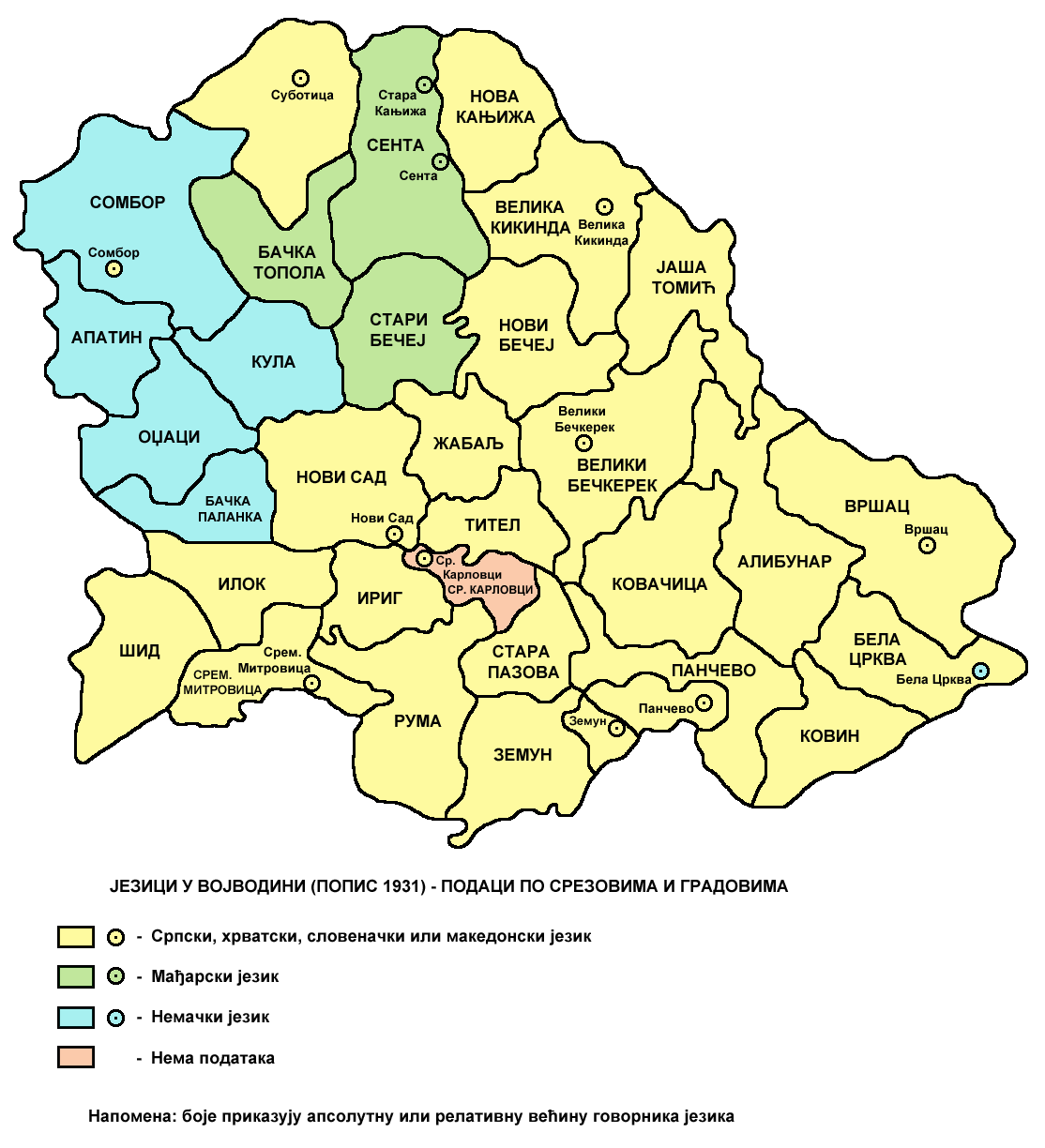 Language map of Vojvodina - 1931 census.